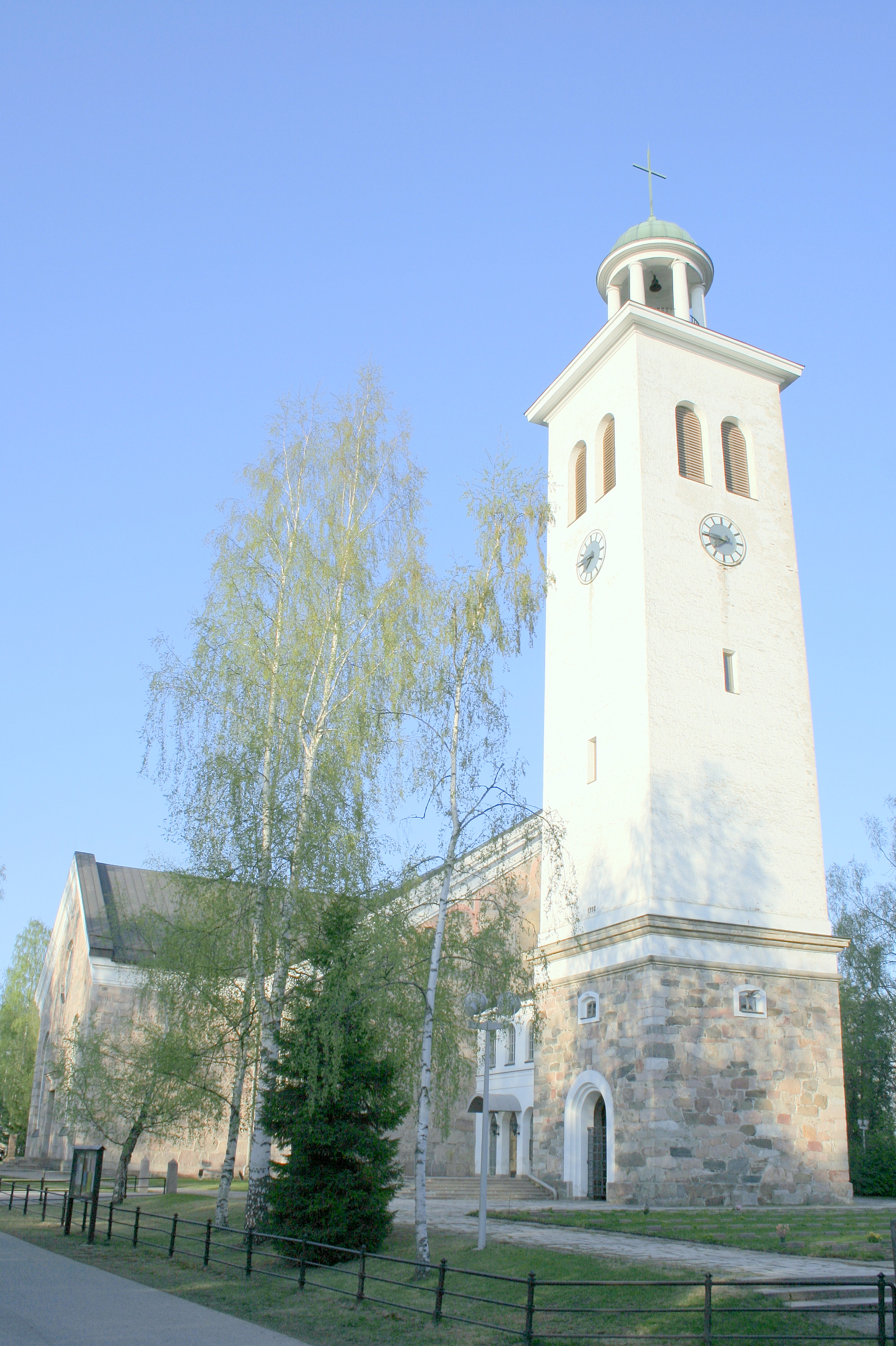 Orimattila Church in Orimattila, Finland. The church was built in 1862–1866 and it is the church of the Evagelical Lutheran parish of Orimattila.